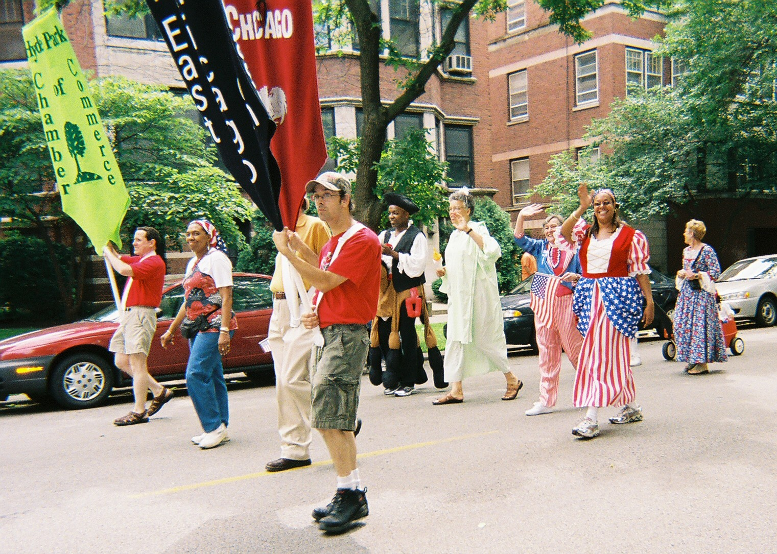 Chicago politicians in Independence Day (United States) parade. Alderman Toni Preckwinkle as the Statute of Liberty, State Rep. Barbara Flynn Currie as Uncle Sam, and Alderman Leslie Hairston as Betsy Ross.